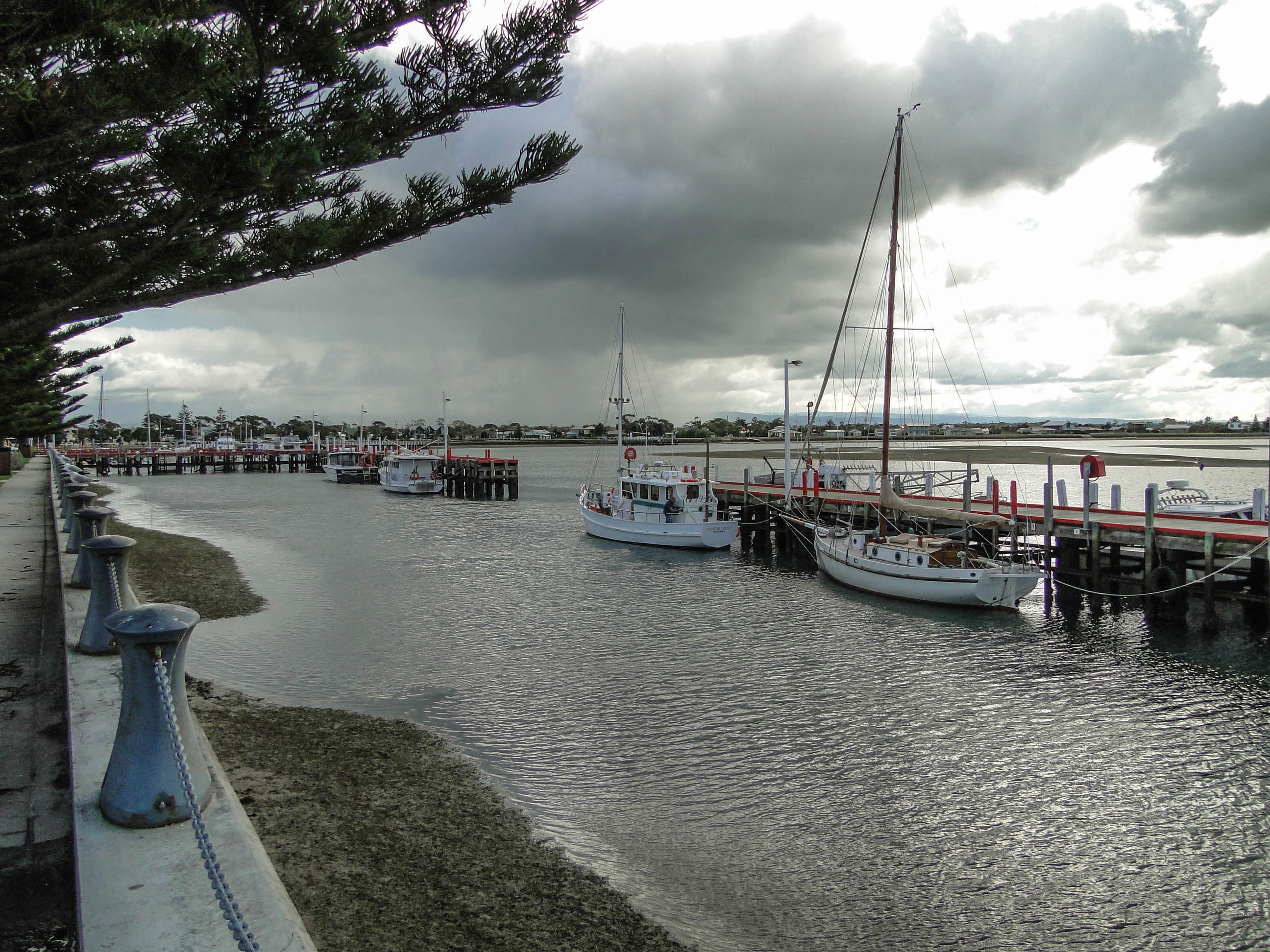 The wooden wharf at Port Albert, Victoria, Australia. There are several fishing boats moored at the wharf.